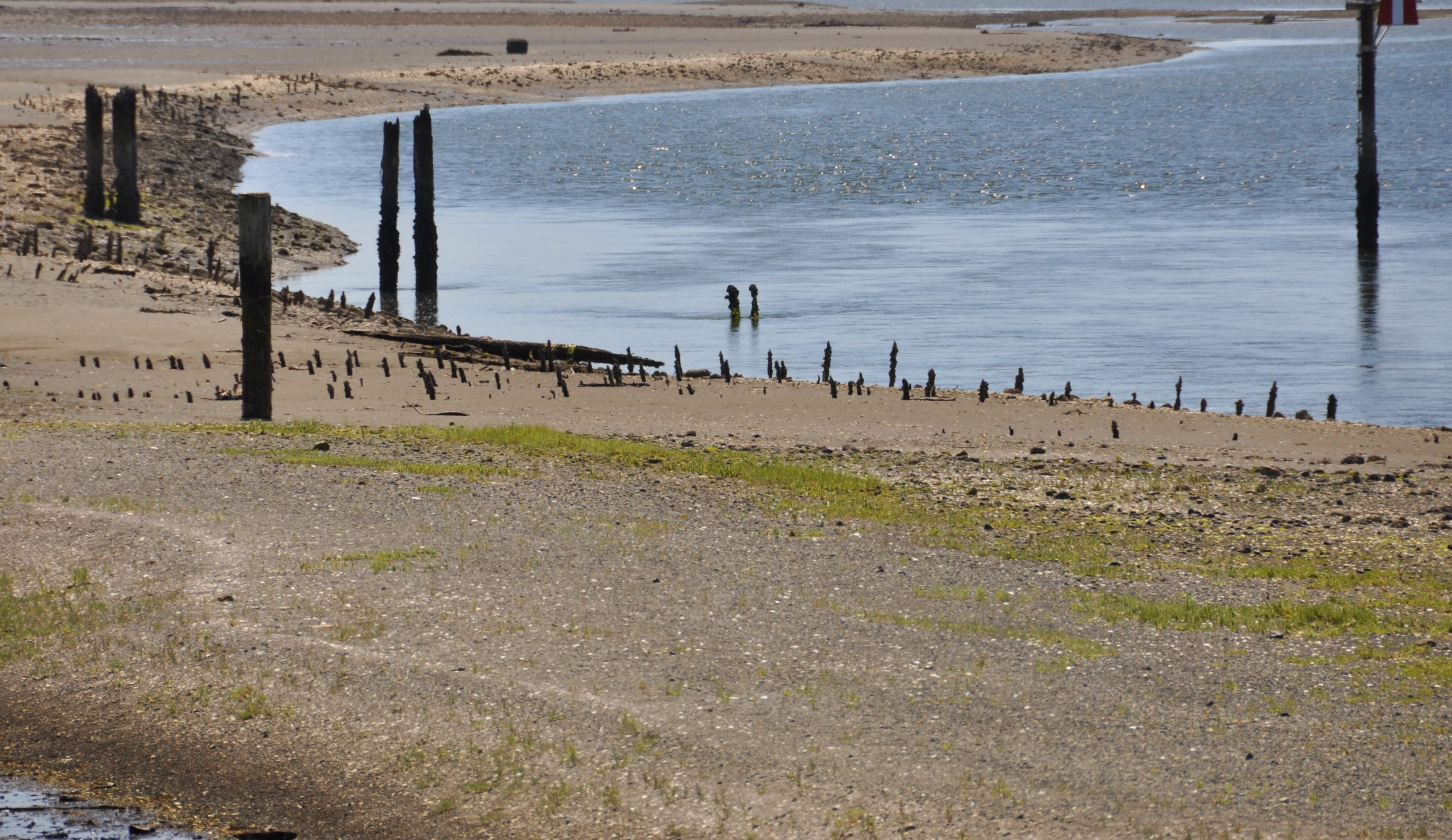 On the shores of the Courtenay River estuary, low tide exposes thousands of ancient cedar stakes, used by Coast Salish First Nations to hold fishing weirs. The age of these stakes, established by carbon dating, ranges from 800 CE to 1860 CE.